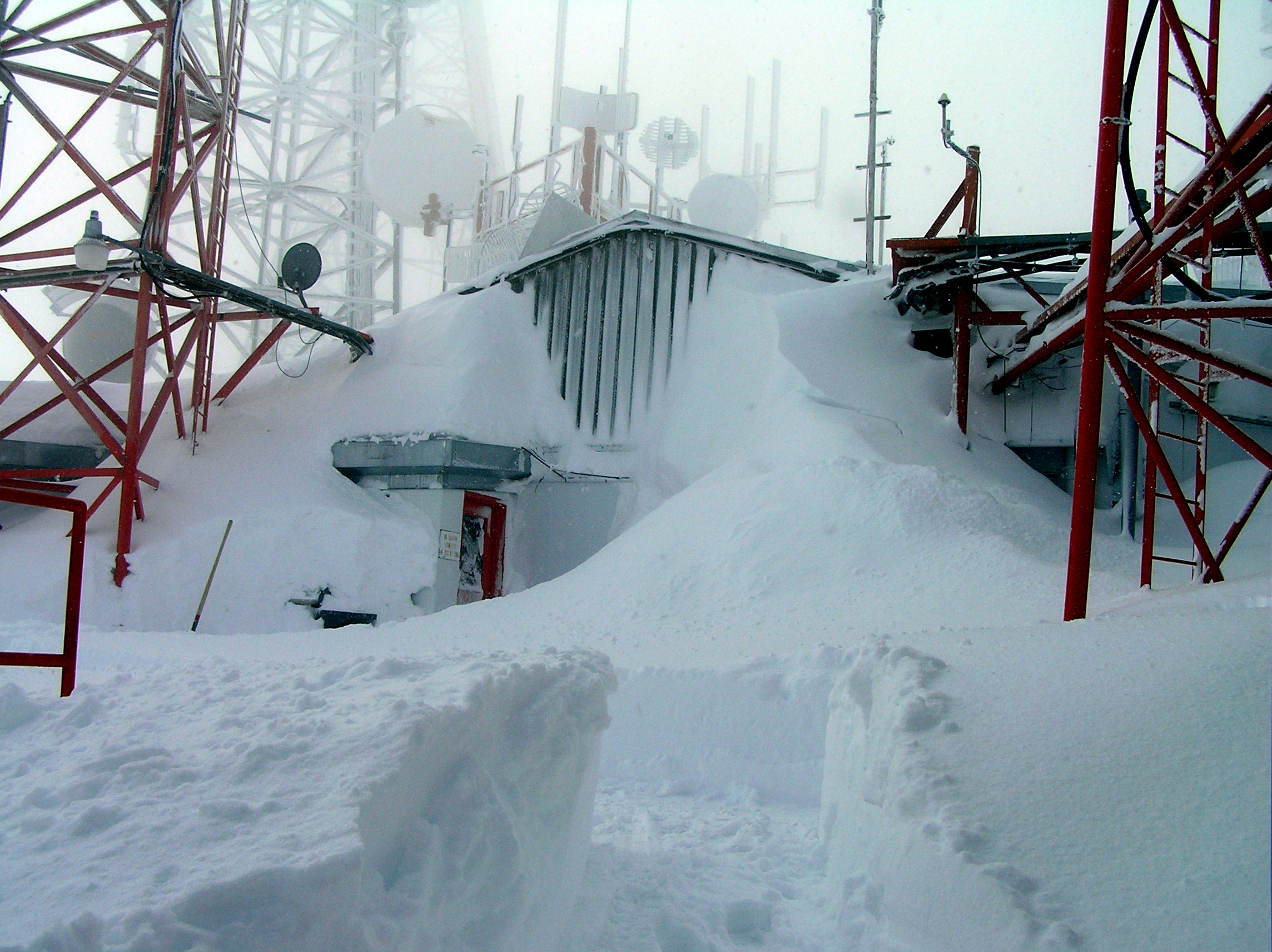 Snow covers Farnsworth Peak, 19 miles west of Salt Lake City, Utah. Taken in late November 2010. Used here with permission. All image credit goes to Sam Kunz of DTV Utah. This version of the image has been run through Picasa filters to fix contrast/color.